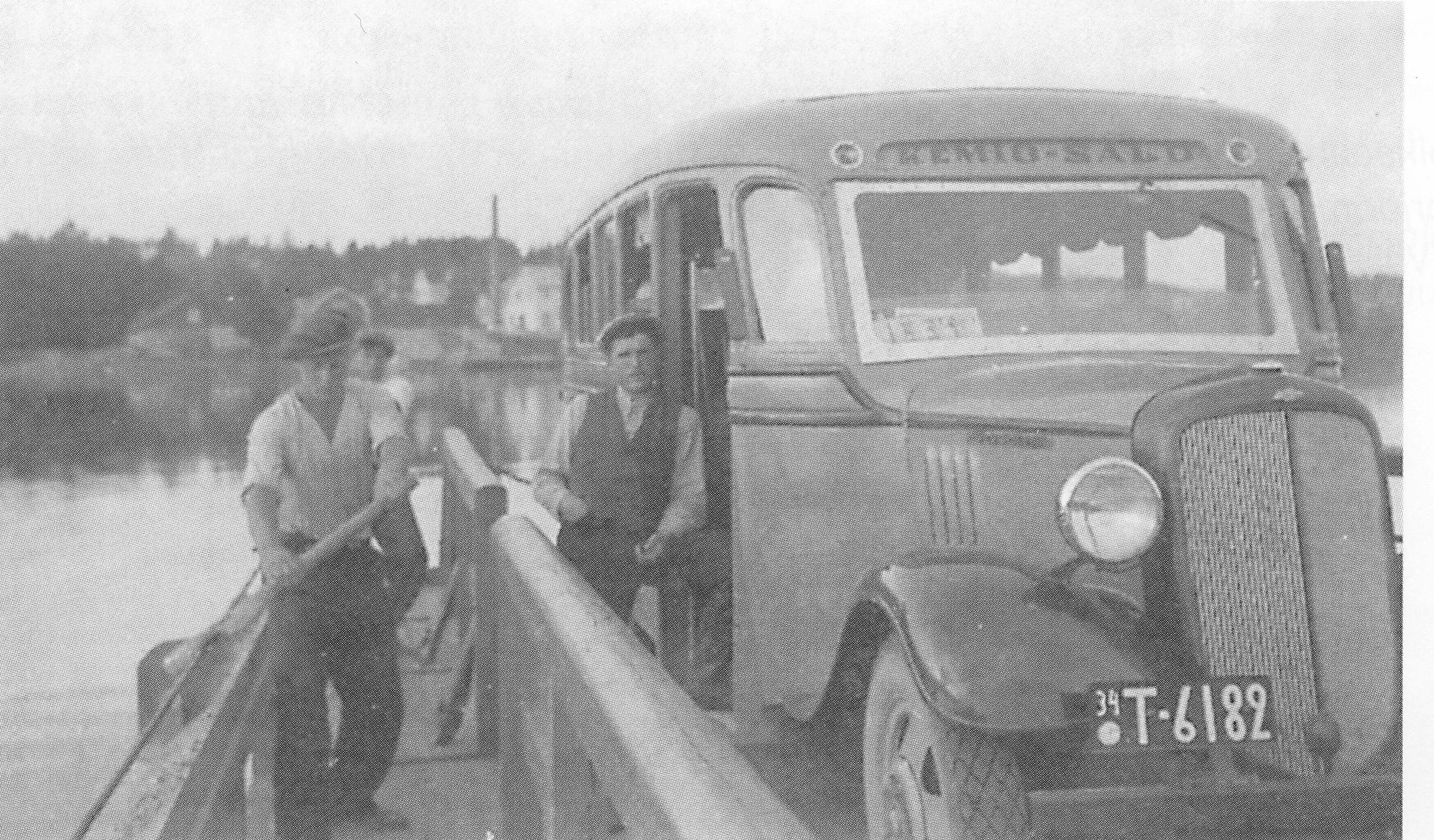 Kokkila Cable ferry year 1934